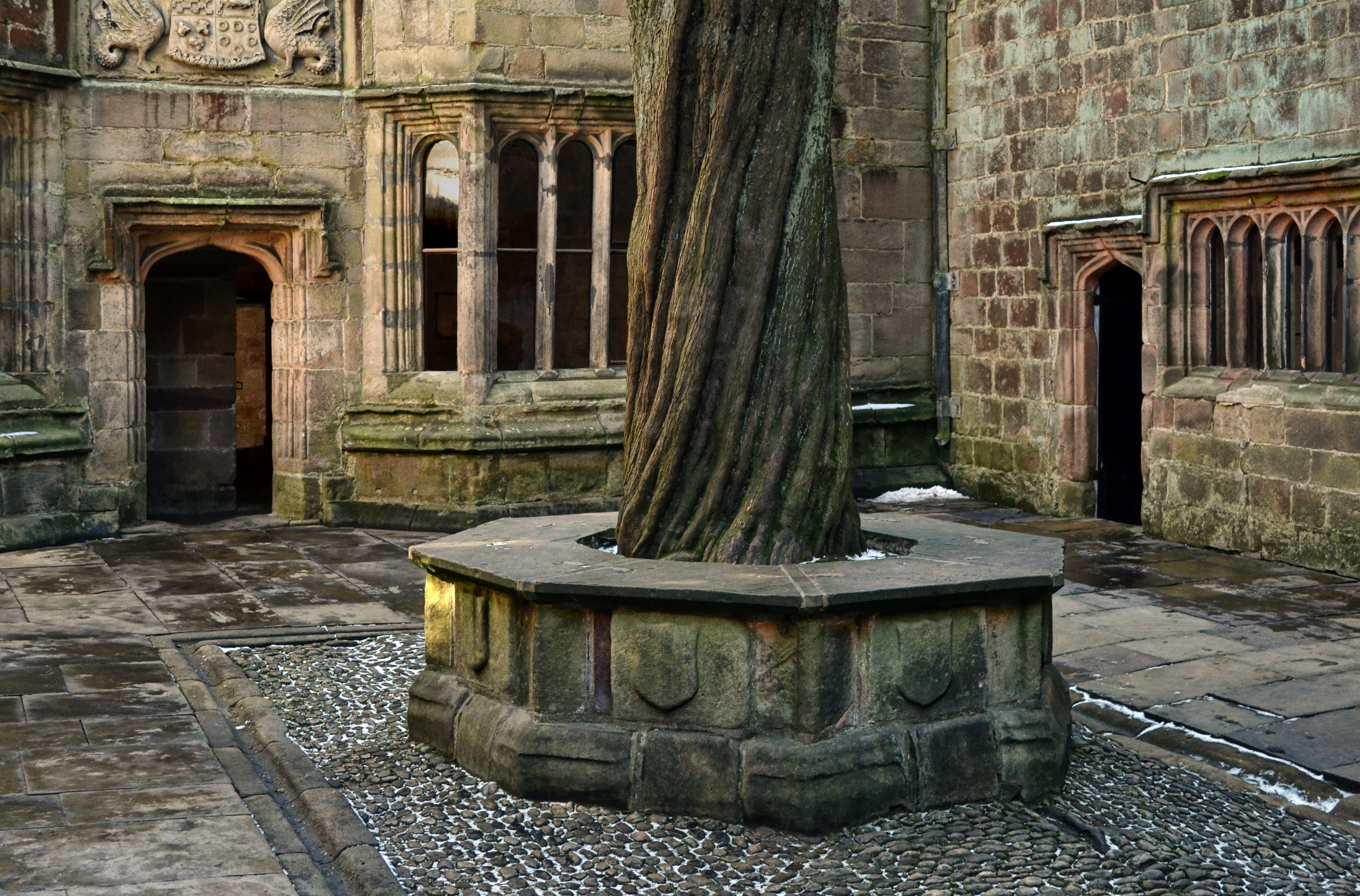 Trunk of a yew tree in Skipton Castle, North Yorkshire, whose sapling was planted by Lady Anne Clifford in 1659. Conduit Court is so named because it was the end of the spring supply piped to the castle.